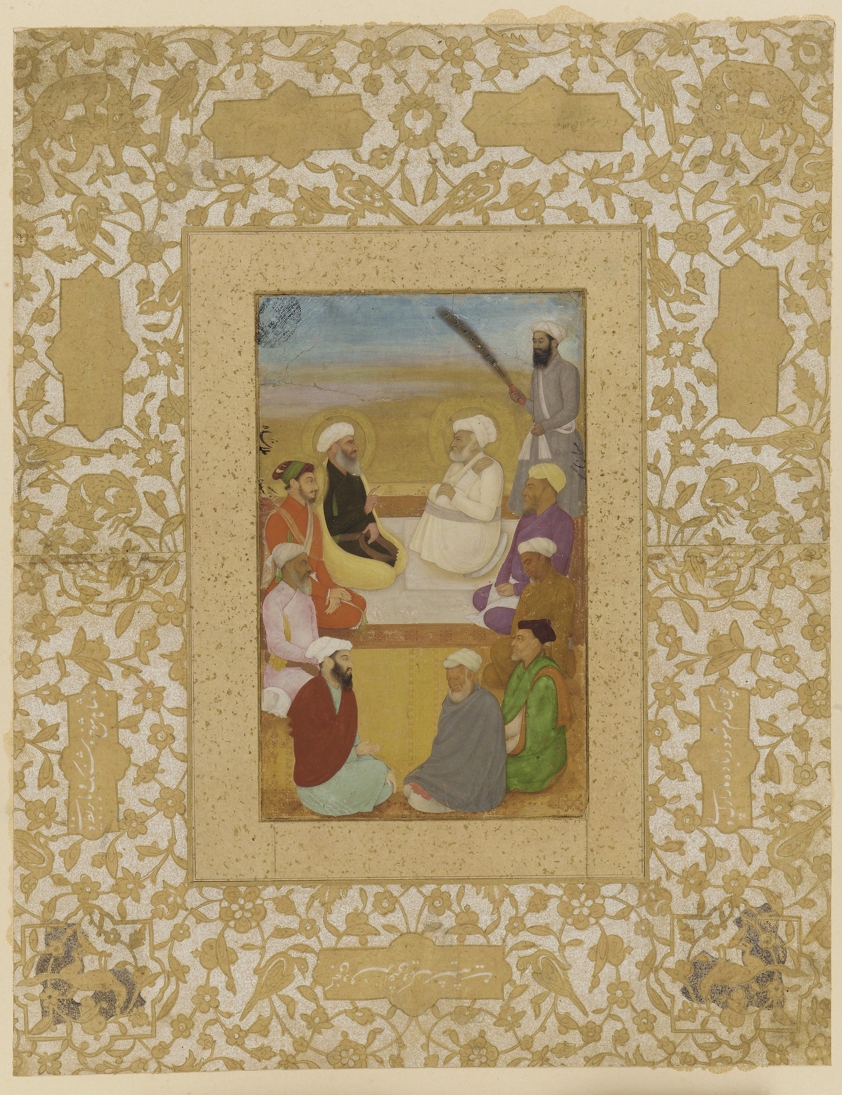 Dara Shikoh from the following link of the Smithsonian Institution; ca. 1635, India. Mughal dynasty. Opaque watercolor and ink on paper.